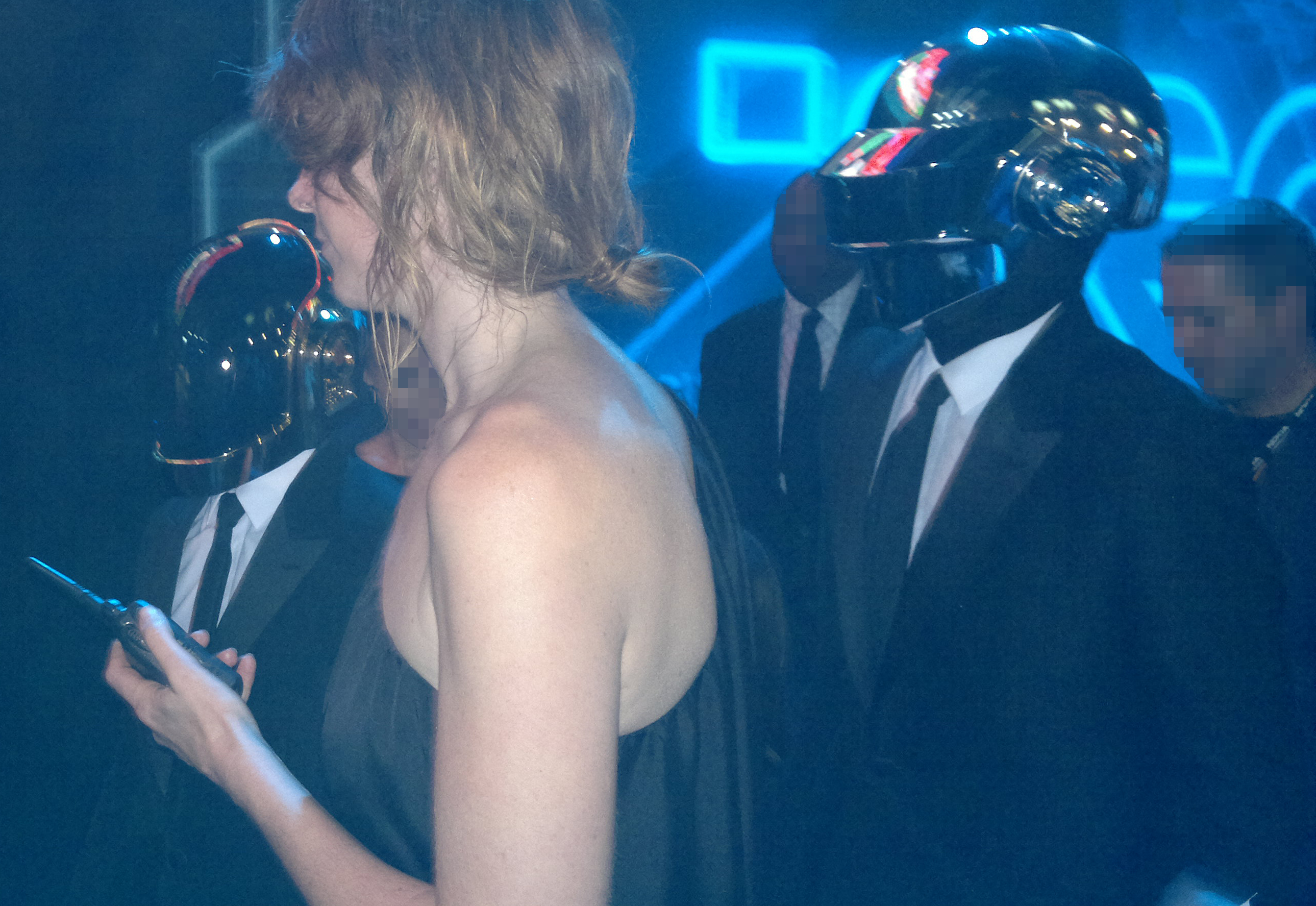 Daft Punk at the premiere of Tron Legacy in Los Angeles, 2010